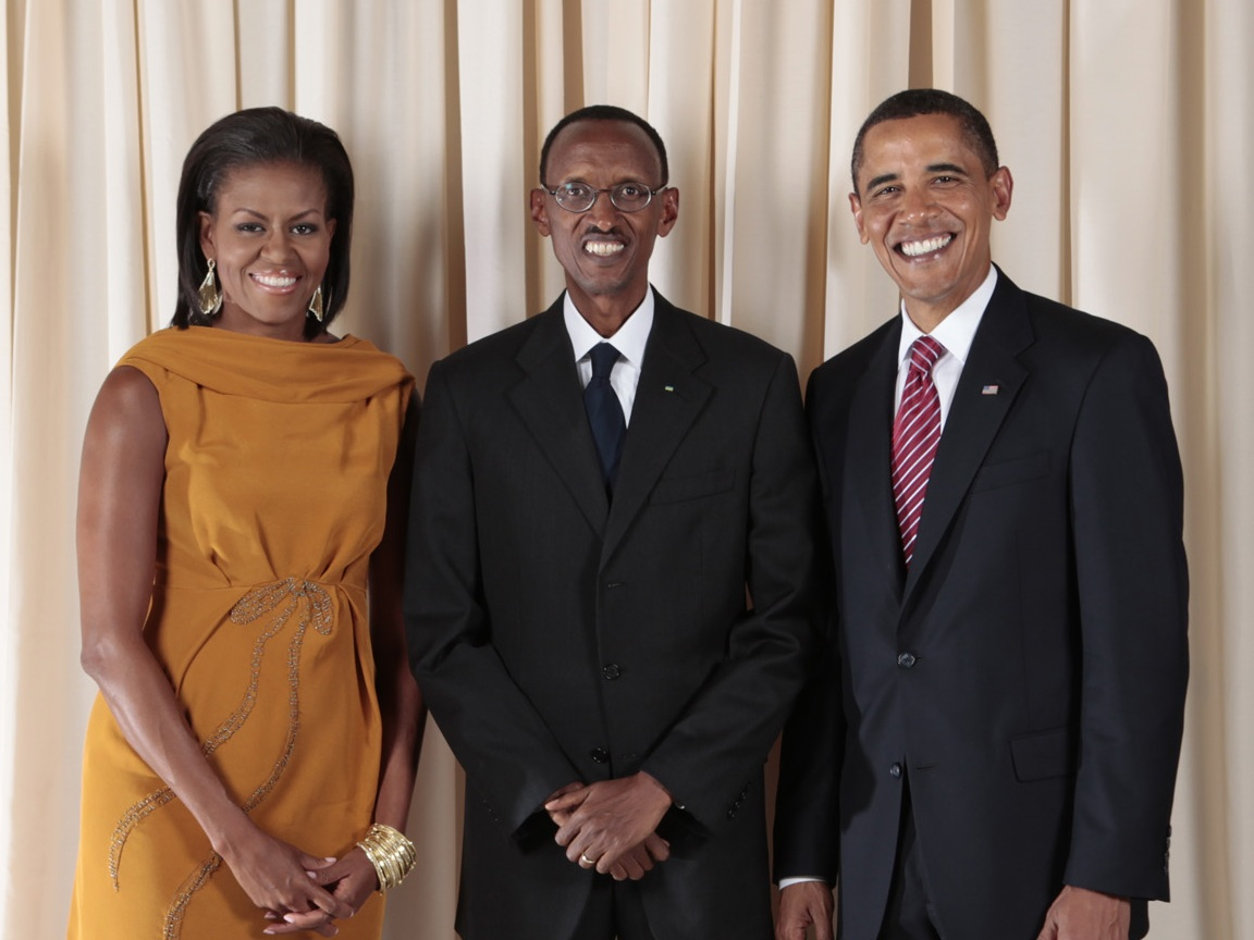 President Barack Obama and First Lady Michelle Obama pose for a photo during a reception at the Metropolitan Museum in New York with Paul Kagame of Rwanda.